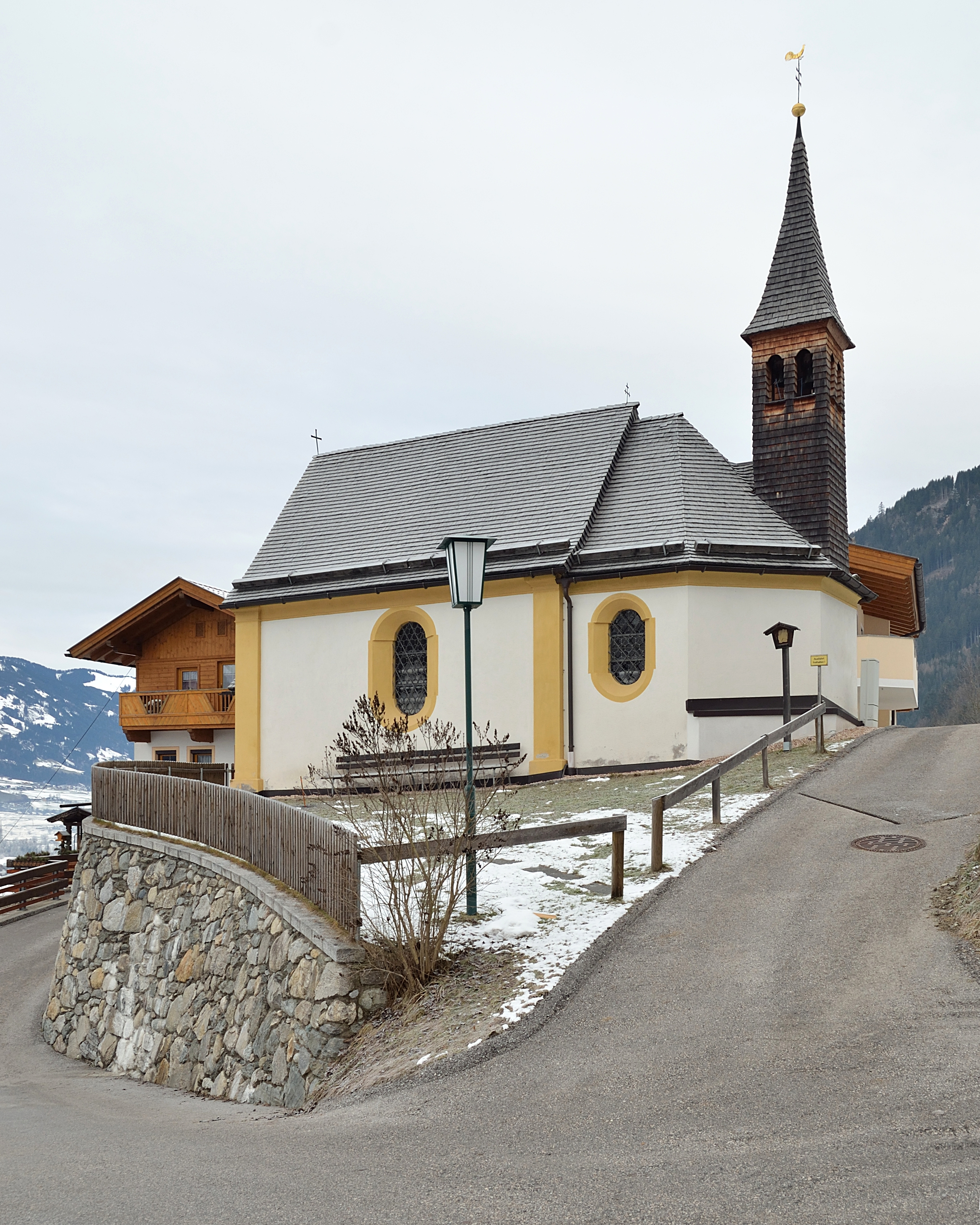 The St. Anthony chapel (Antoniuskapelle) in Stumm im Zillertal, Tyrol, is protected as a cultural heritage monument.